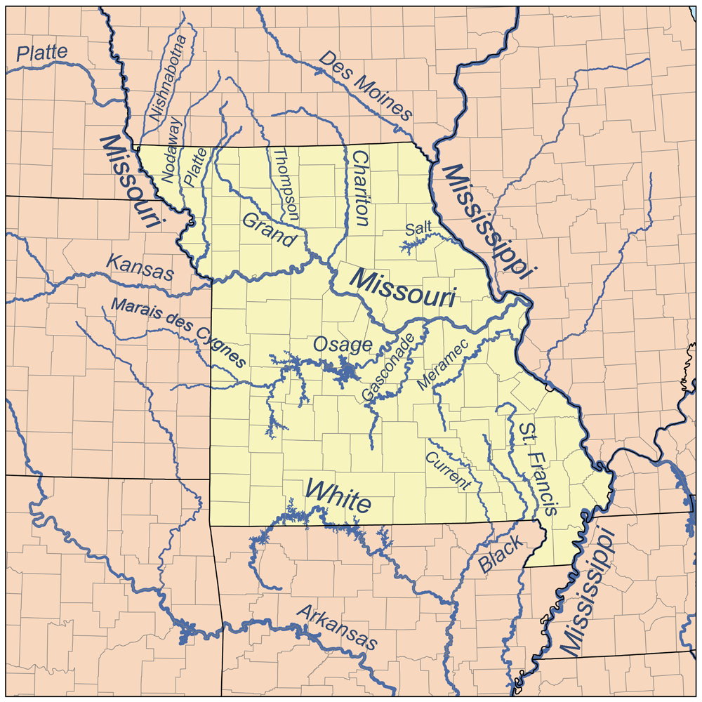 Map of the Rivers of Missouri — and of adjoining states in the south-central U.S. Showing the major rivers in Missouri, and their principle tributaries. Designed as a replacement for Image:Mo-rivers.png.